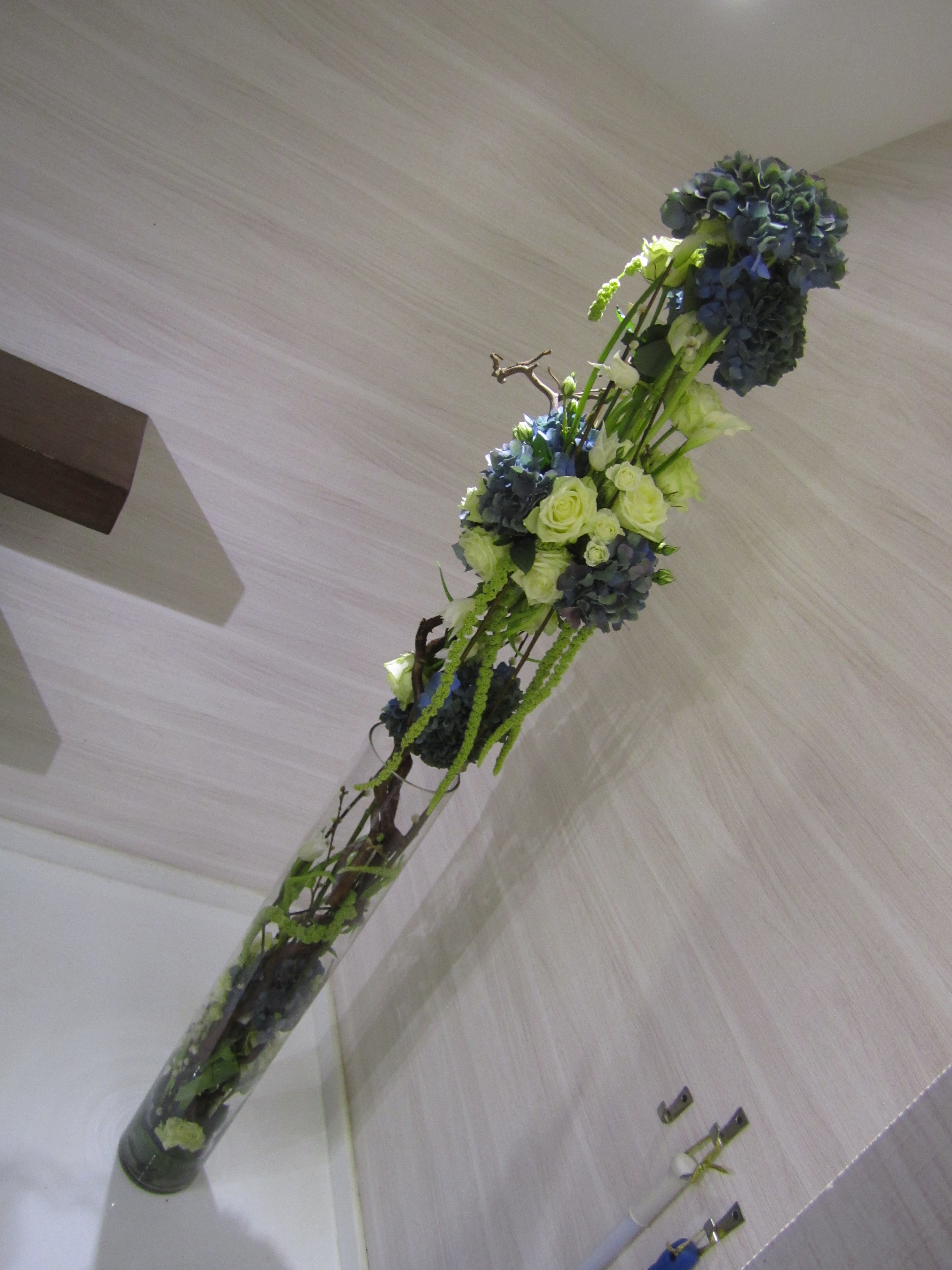 Tall floral arrangement